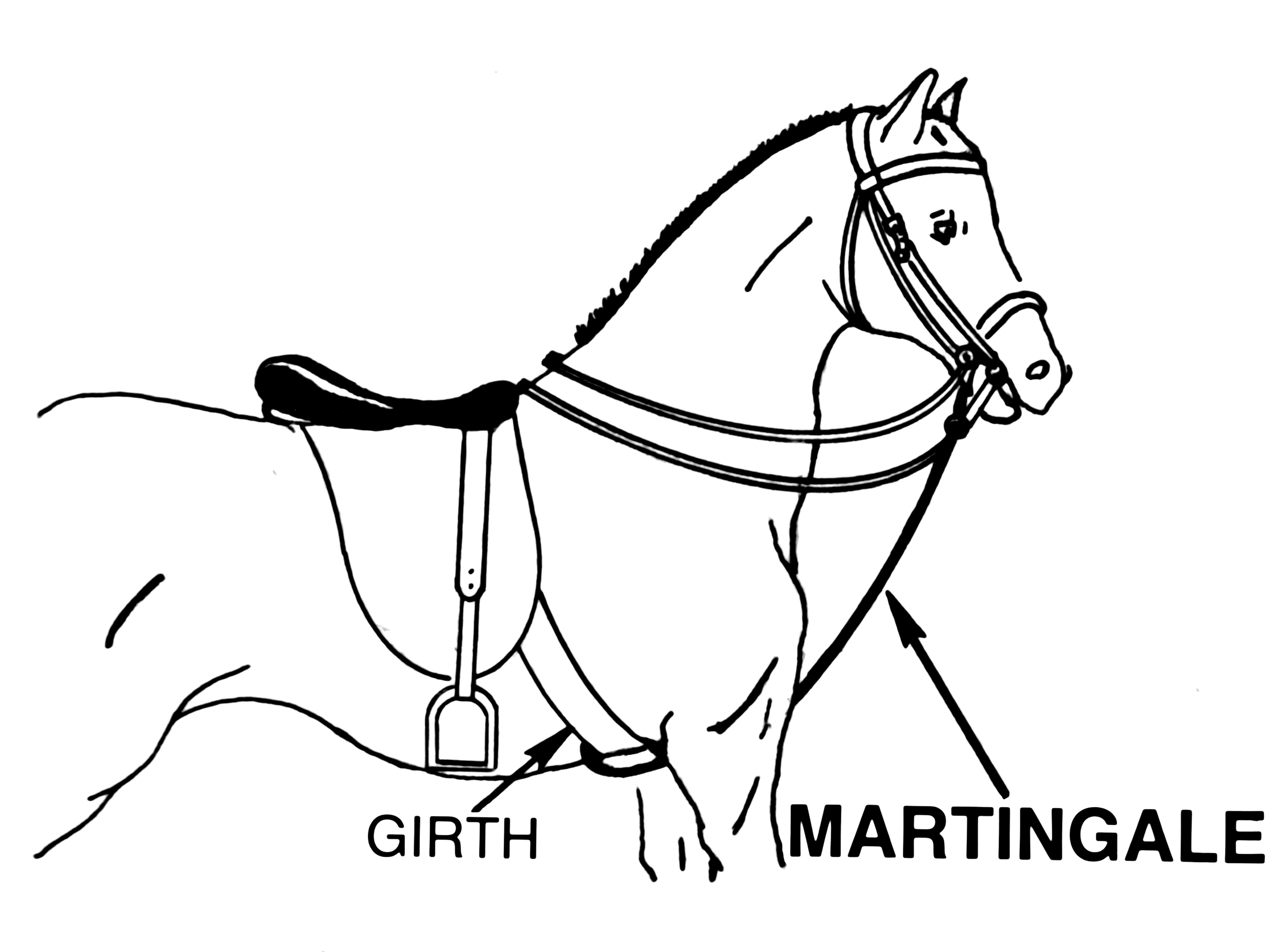 Martingale